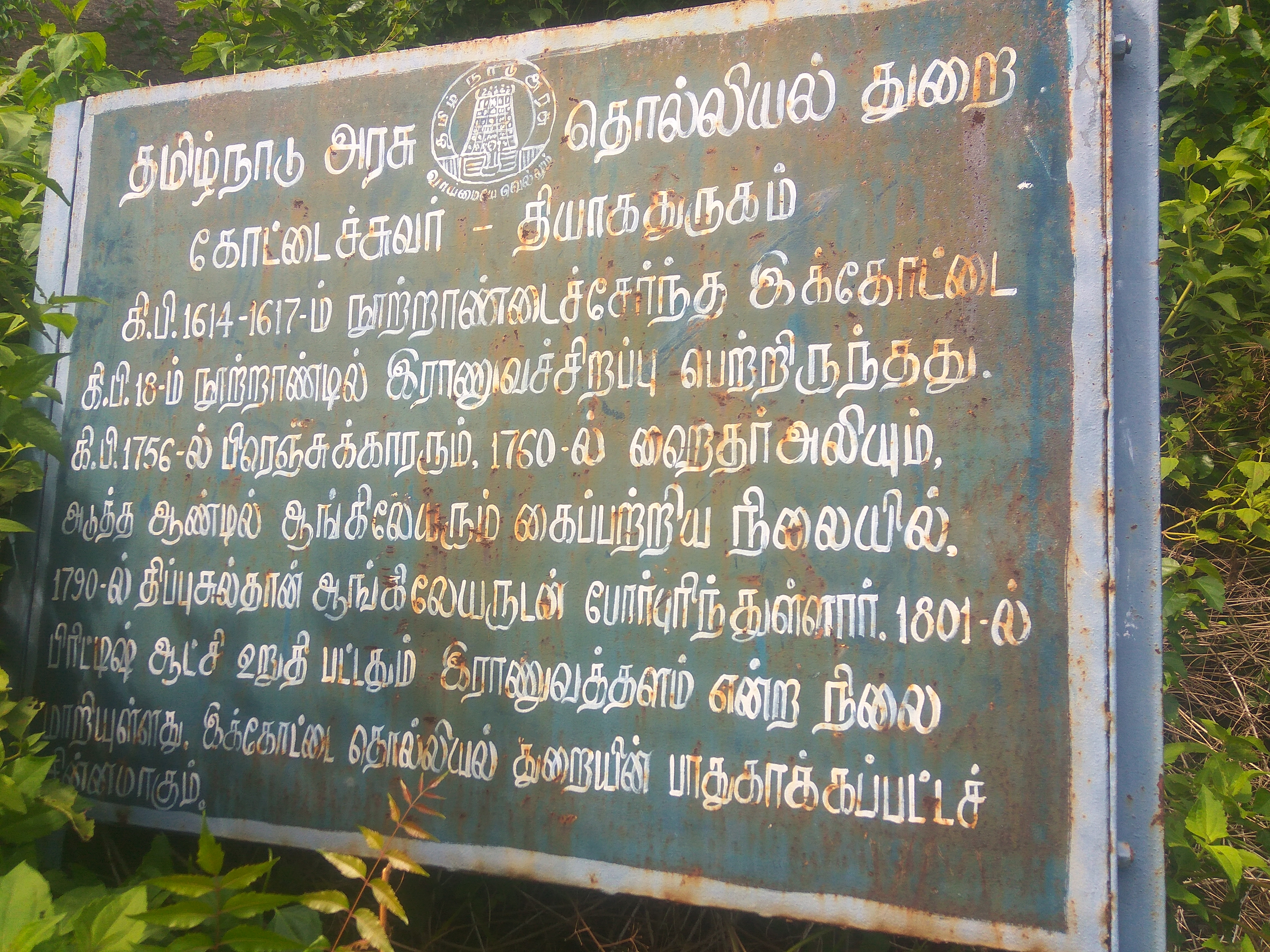 தமிழ்நாடு அரசு தொல்லியல் துறை தகவல் பலகை